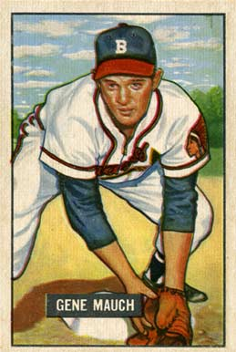 Major League Baseball player Gene Mauch in 1951.